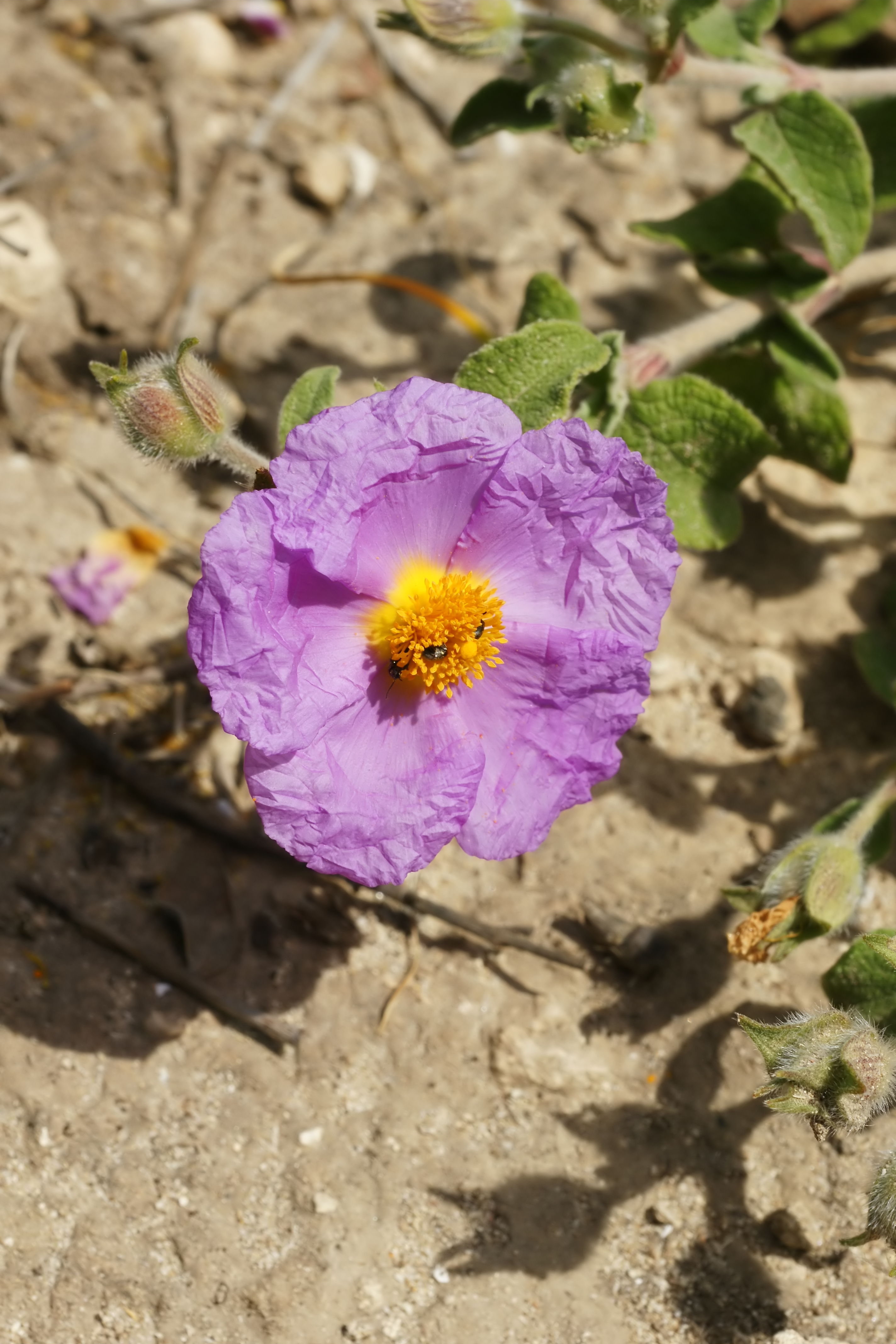 White-leaved Rock Rose, Sardinia, Italy